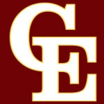 Author: Cape Elizabeth School Department